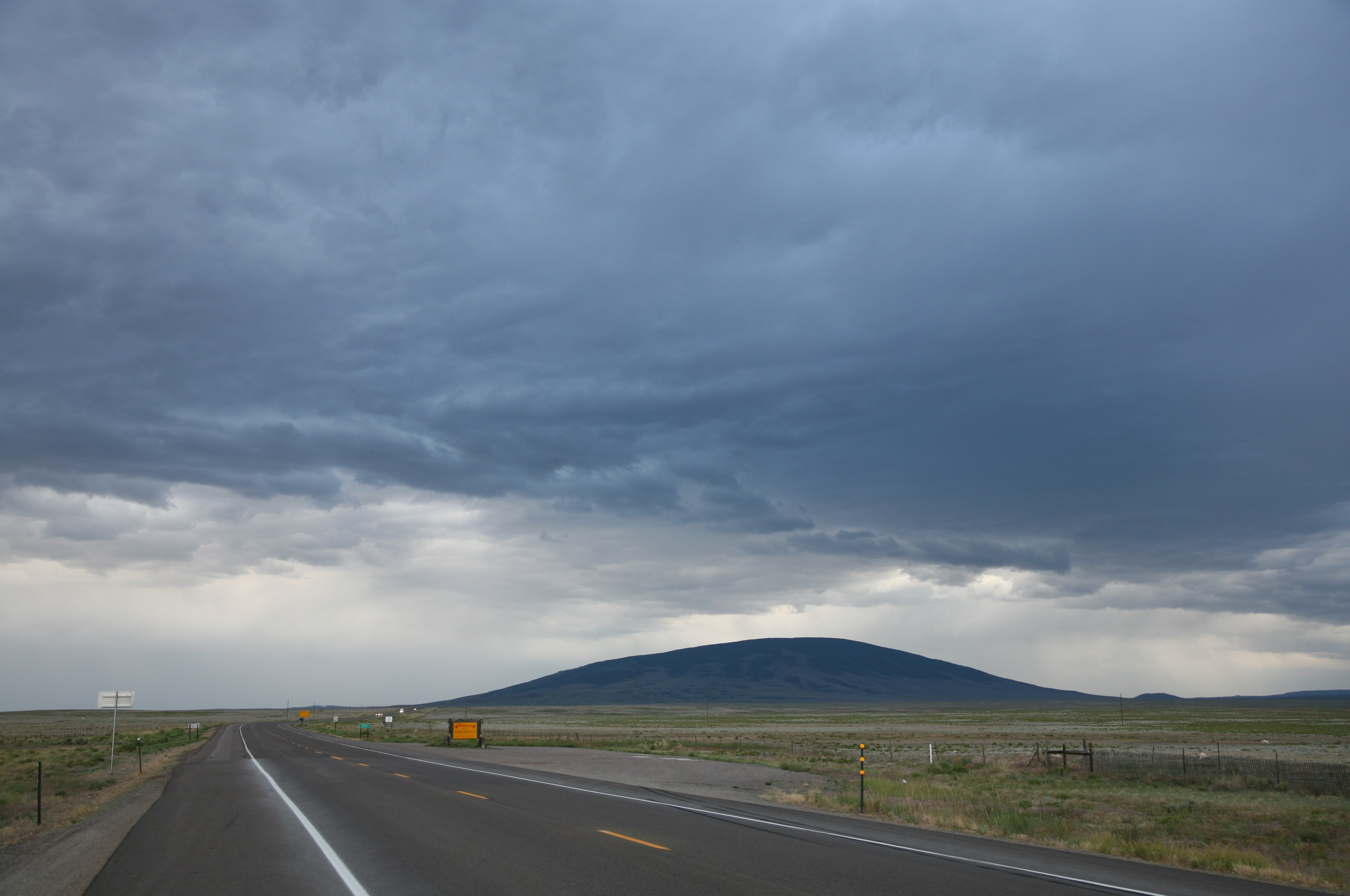 San Antonio Mountain — in New Mexico, as seen from the Colorado side of the NM-CO state line on U.S. Route 285. The highest point in the Taos Plateau Volcanic Field.